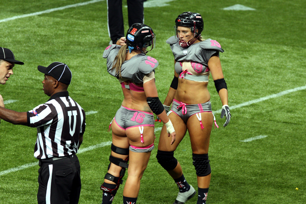 Lingerie Football League All-Star Games Tour match at Allphones Arena, Sydney.